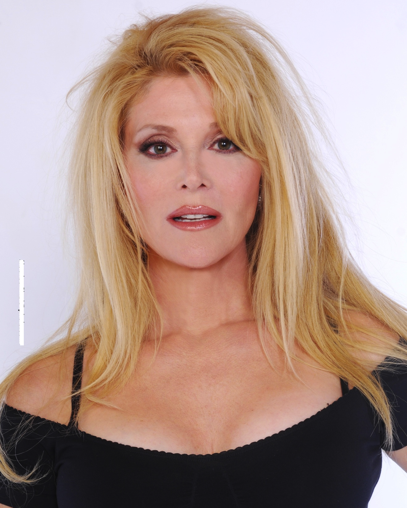 Audrey Landers head shot.